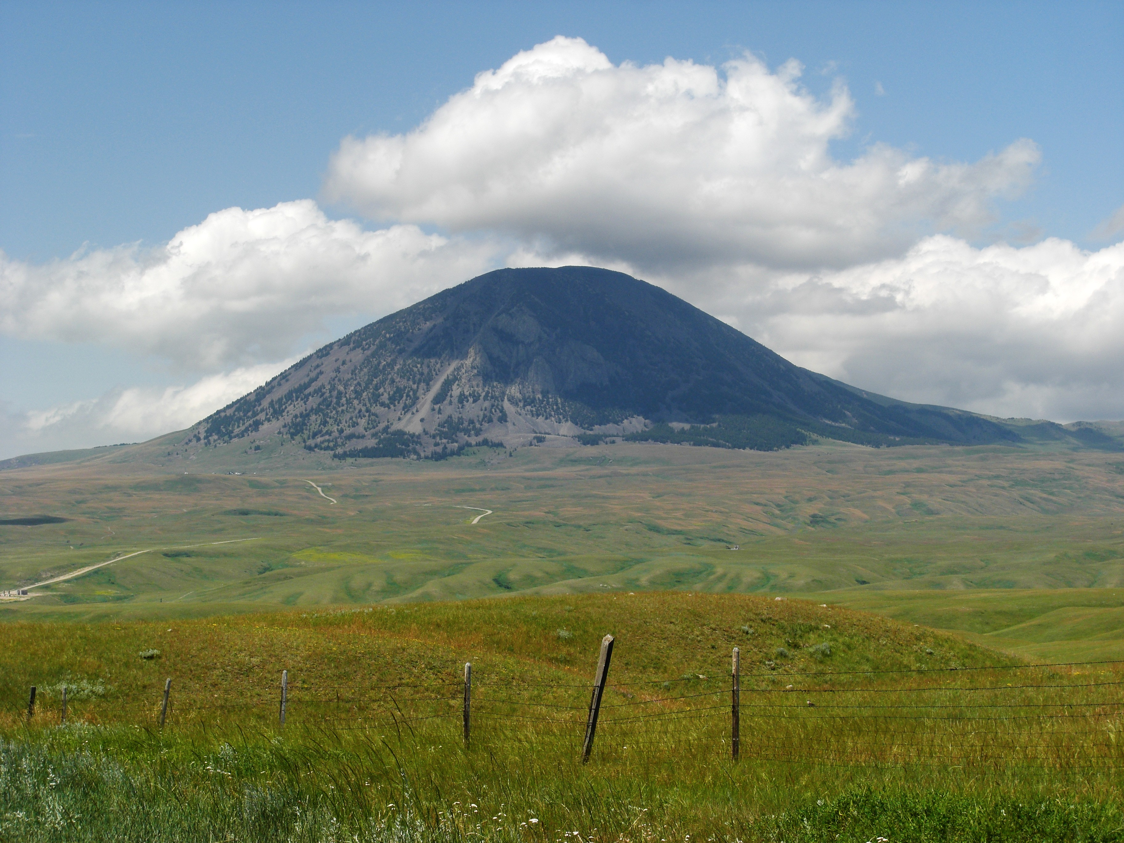 Sweetgrass Hills, Montana, 20110714